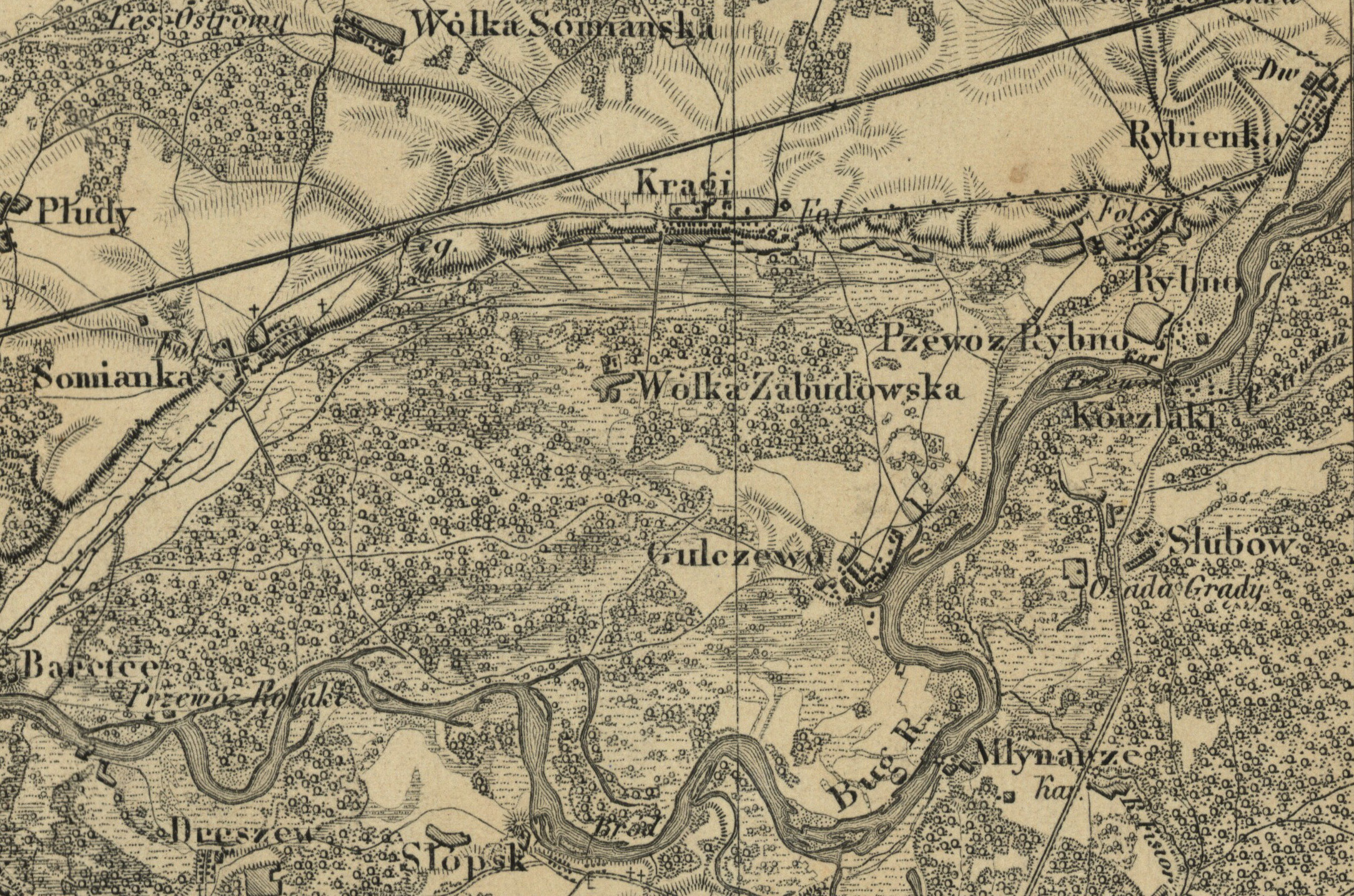 Map of village Kręgi in Poland and neighborhood, ca. 1838